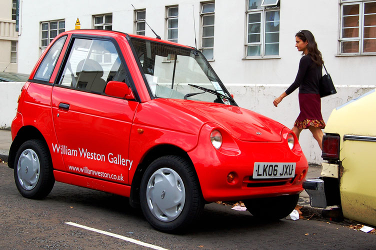 The Reva G-Wiz is a lightweight battery electric vehicle designed for low speed, congested urban conditions. Emissions: Zero from vehicle Dimensions: L 2.6m, W 1.3m, H 1.6m Weight: 665kg inc batteries Top speed: 45mph Range: 40 miles Power: 8 x 6v Lead Acid Batteries connected in series, 200 Amp-hr Motor: 220- 240V, 2.2 kW, high frequency, switch mode type